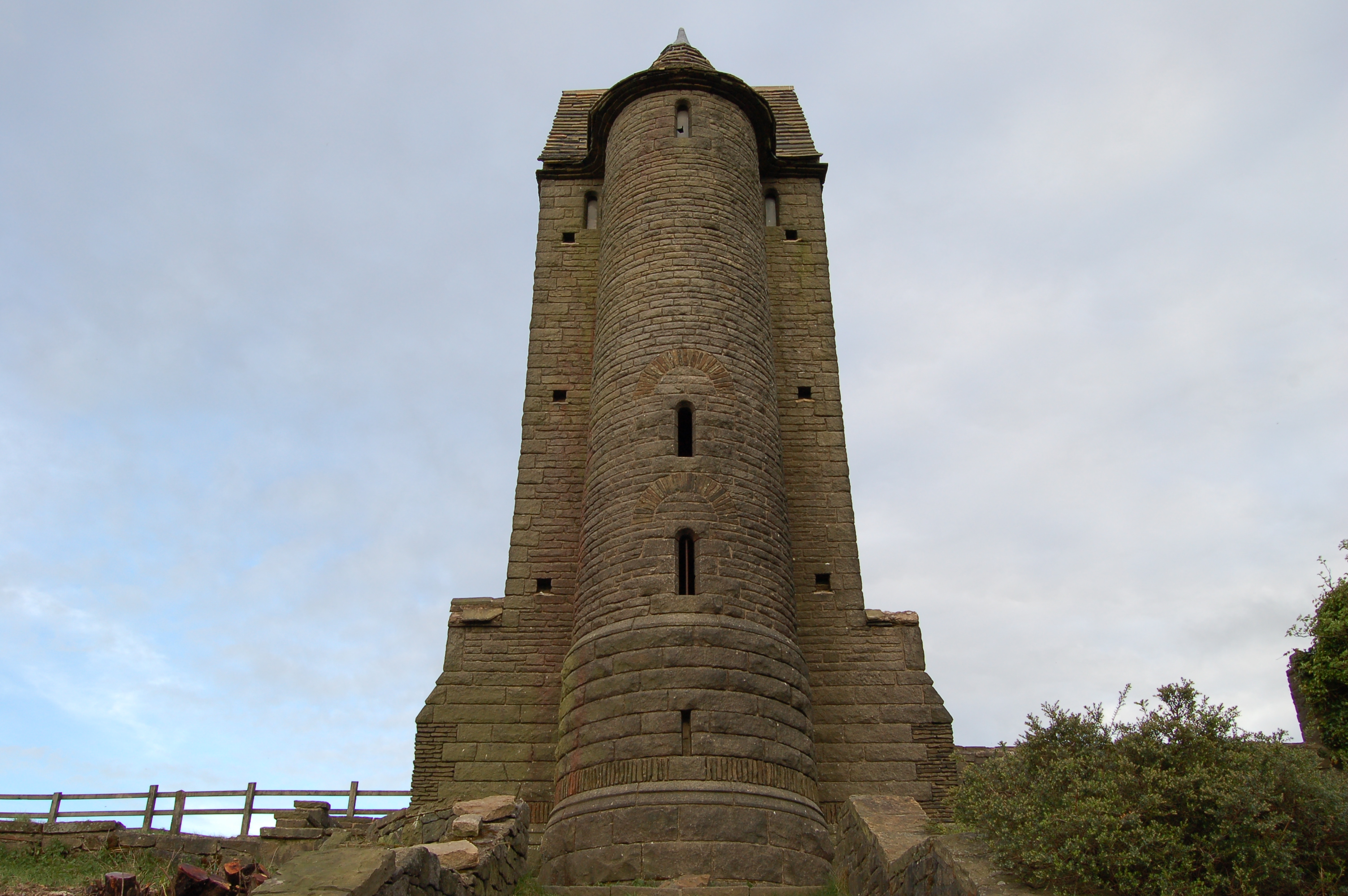 The Pigeon Tower on the West Pennine Moors, England.